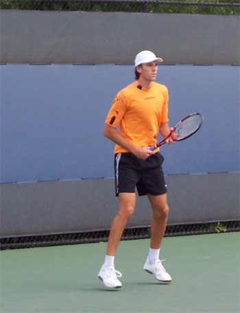 photo taken by me